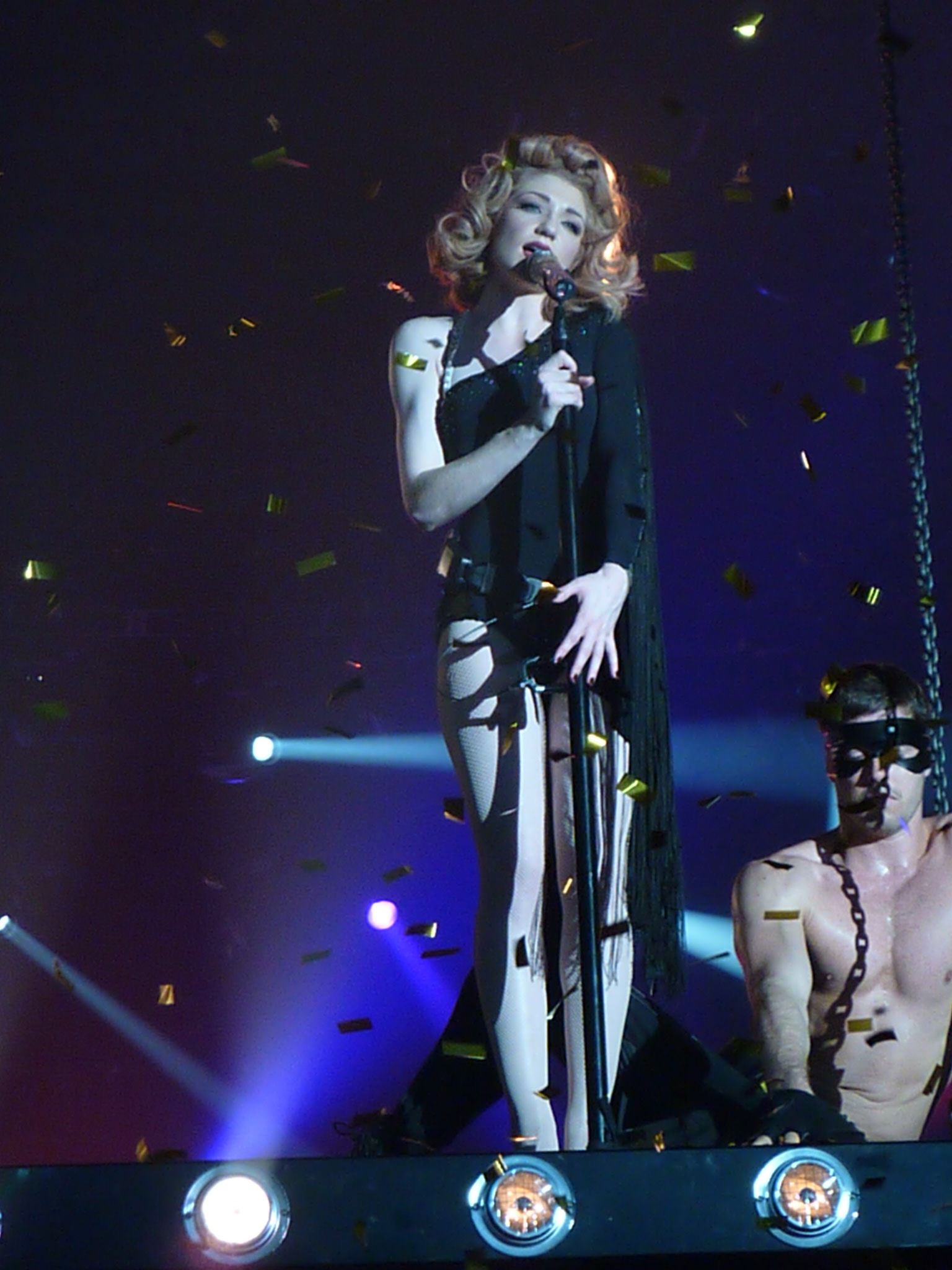 Nicola Roberts performing in Newcastle at the final night of the Girls Aloud 2009 Out of Control Tour. 6th June, 2009.